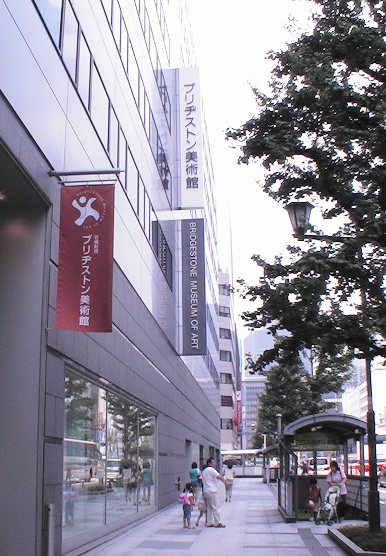 The Bridgestone Museum of Art in Tokyo, Japan